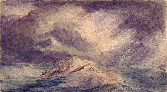 Ship of US EXp. Exp. schooner Flying Fish in a stormy sea